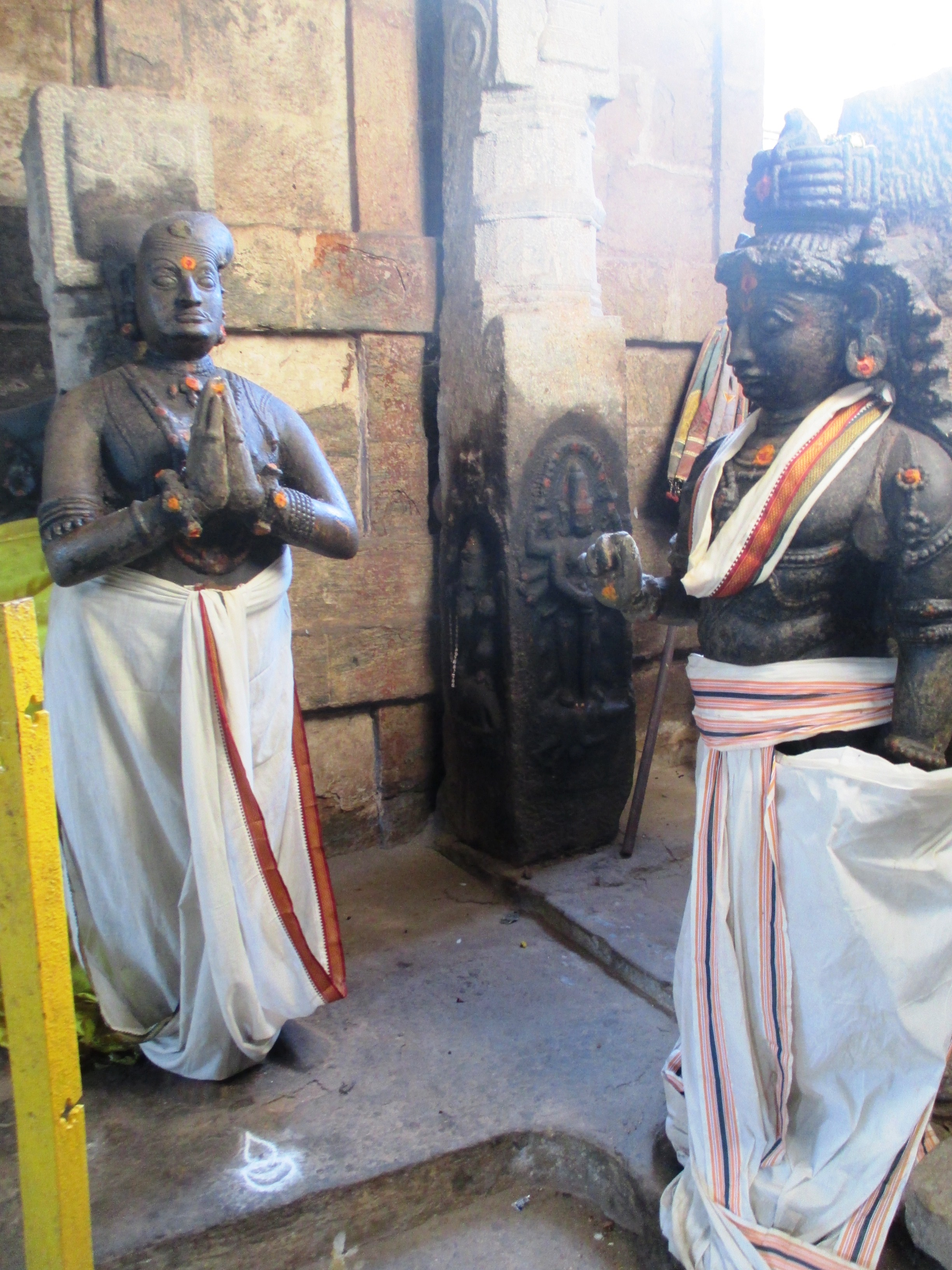 Pushpavananathar temple, Sivaganga